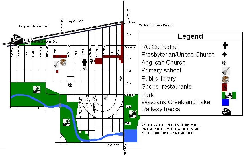 Self-made